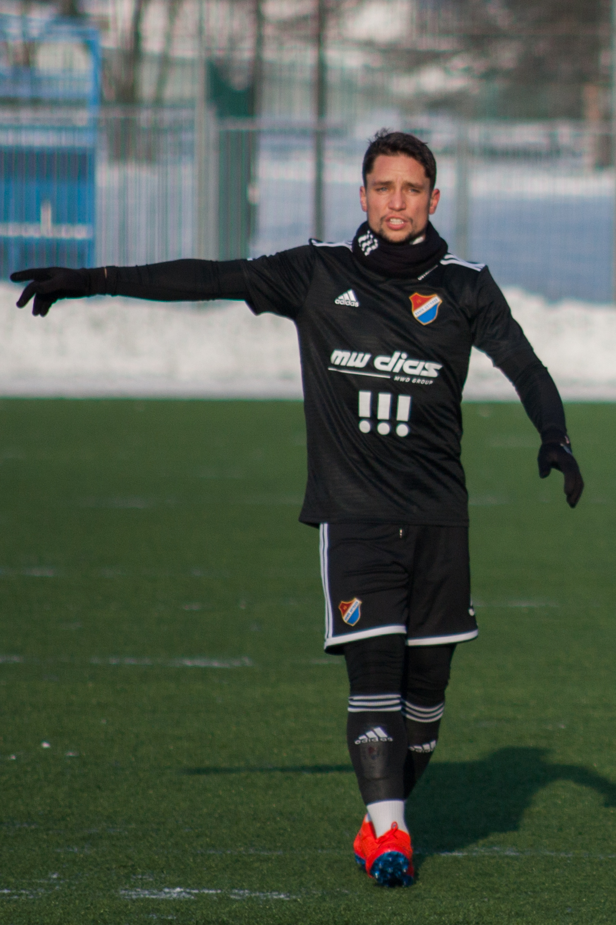 Czech Winter Tipsport League match FC Baník Ostrava-FK Poprad played on 11 January 2019